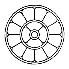 The Mothers transparent Symbol. Description: The central circle represents the Divine Conscioness. The four petals represents the four powers of the mother. The twelve petals pepresents the twelve powers of the Mothers manifested for her work.